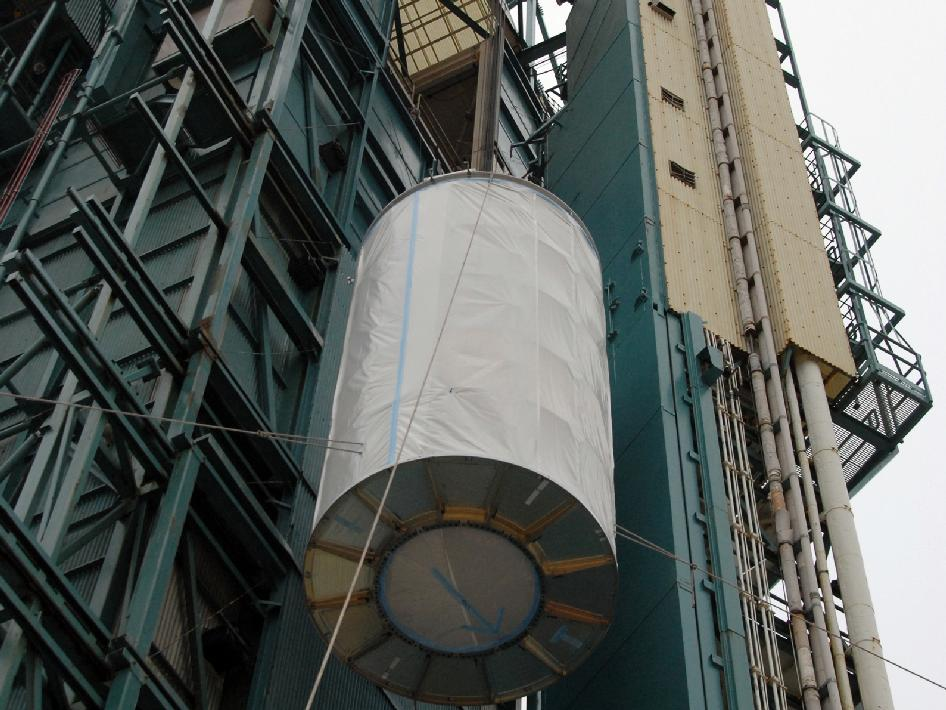 An overhead crane lifts the Aquarius/SAC-D spacecraft, secured inside its payload transportation canister, into the mobile service tower at NASA's Space Launch Complex-2 at Vandenberg Air Force Base in California. The spacecraft will be integrated to a United Launch Alliance Delta II rocket in preparation for launch. Aquarius, the NASA-built instrument on the SAC-D spacecraft, will provide new insights into how variations in ocean surface salinity relate to fundamental climate processes on its three-year mission.